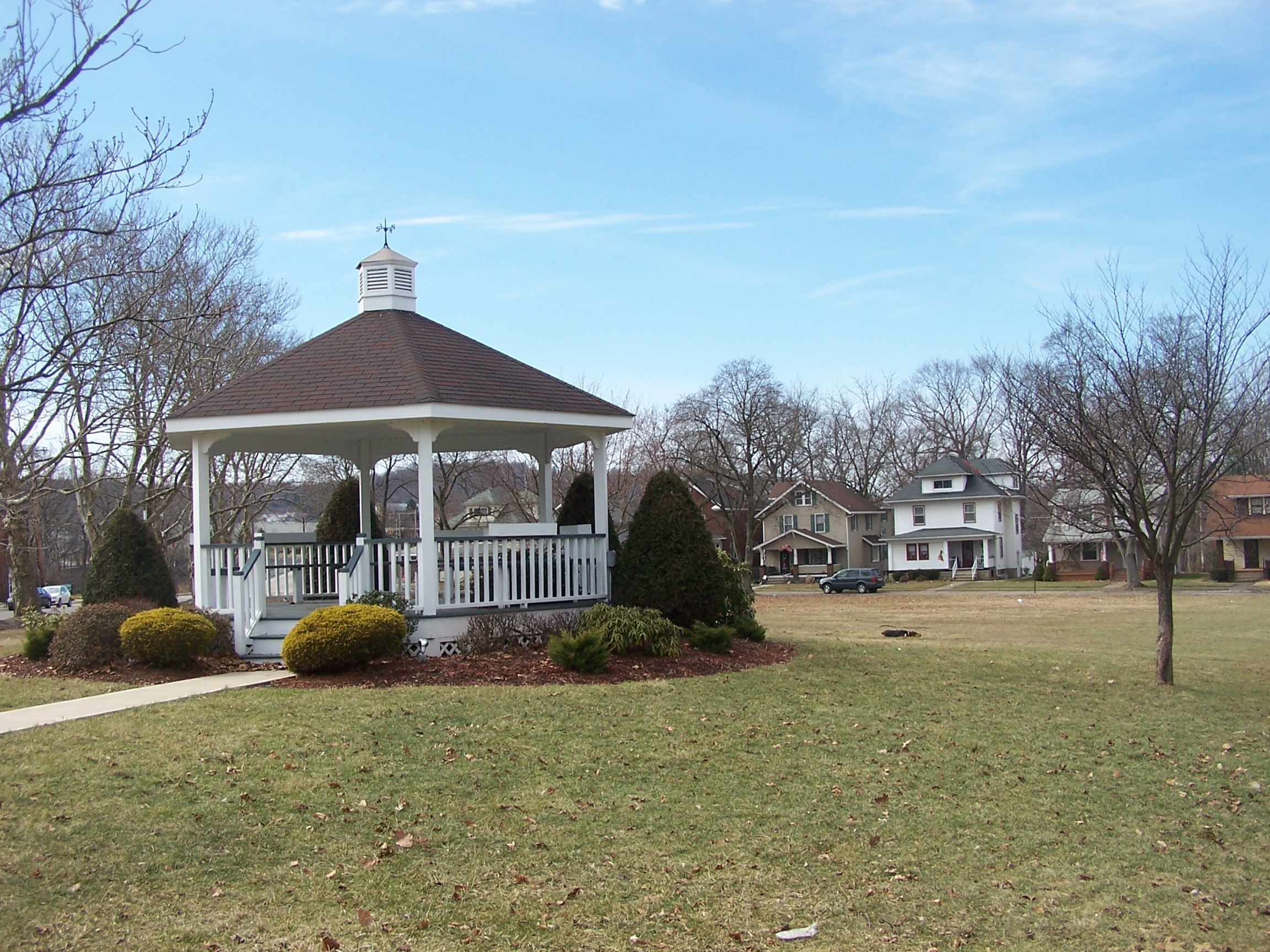 This is one of several green spaces that Ellwood City, PA, set aside around the residential section called Ewing Park. It begins a second lunchtime walk-about in Ellwood City neighborhoods. (See ellwood city homes 2 Set on right) These are mostly 1920s homes - a period of propsperity for this once booming industrial center. Industry has made a recovery here - often small businesses and family owned companies, capitalizing on the technical skills and famous Western PA work ethic. I-279 , the PA turnpike and Rt 60 have also made this a reasonable bedroom community for Pittsburgh & its surroundings for the one-hour plus commuter.